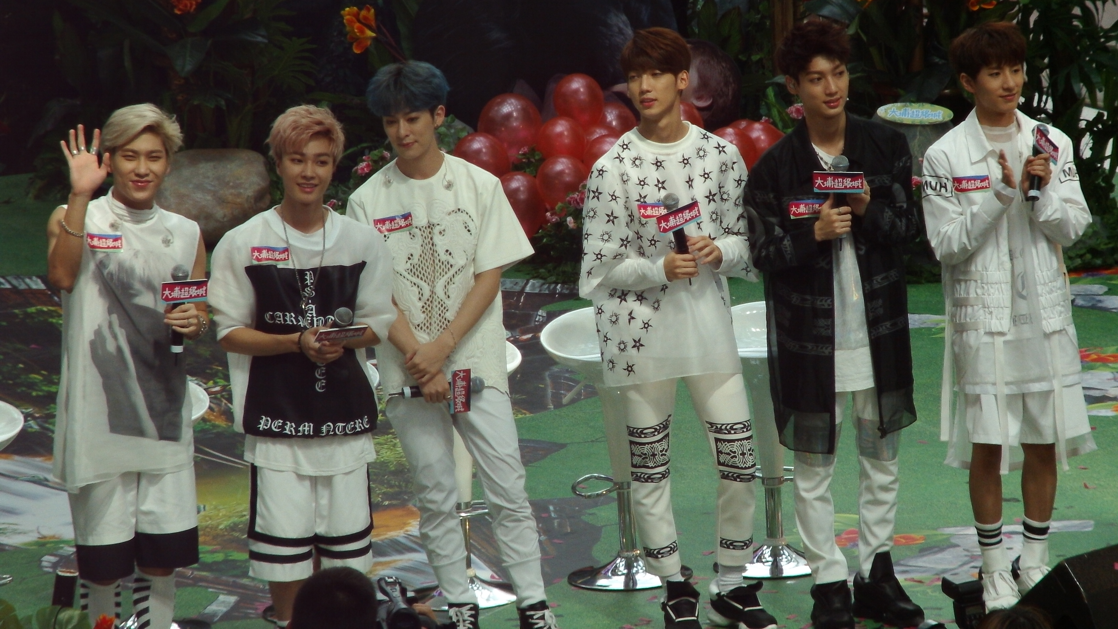 South Korean boy group Boyfriend are having an autograph session at Tai Po Mega Mall, HK